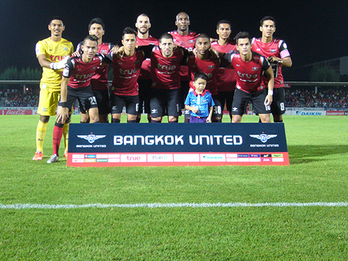 Bangkok United in 2015 ahead of the game against Muang Thong United